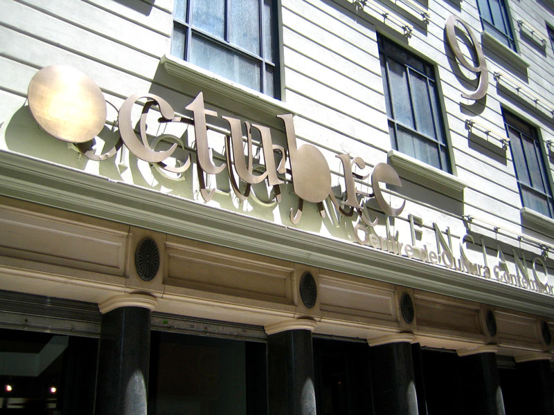 Close-up of the October Centre of Contemporary Culture façade, Valencia